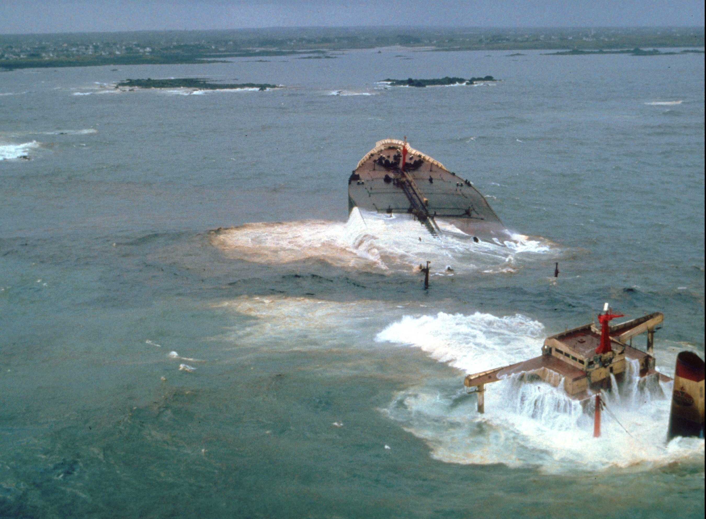 Amoco Cadiz grounding